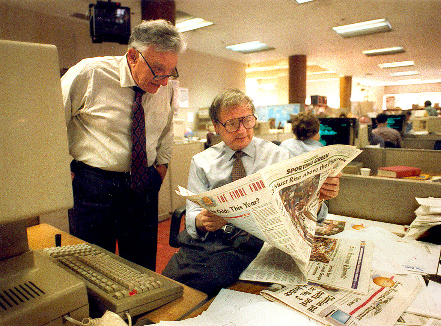 Jack Breibart(right) and Bill German (left, The Chronicle's editor emeritus)in the San Francisco Chronicle newspaper newsroom, 901 Mission Street, San Francisco, California. photo by Nancy Wong, March 14, 1994